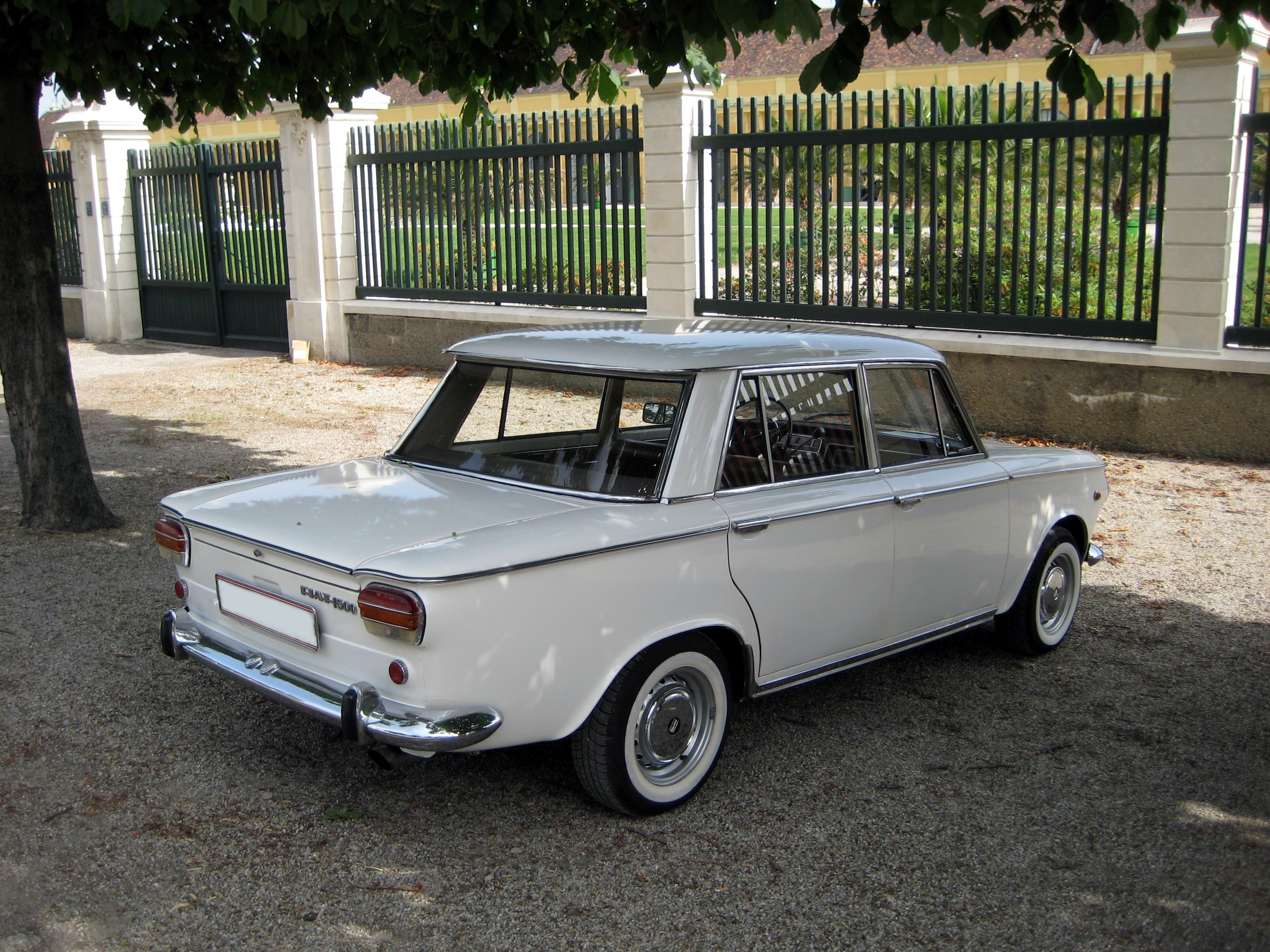 Fiat 1500